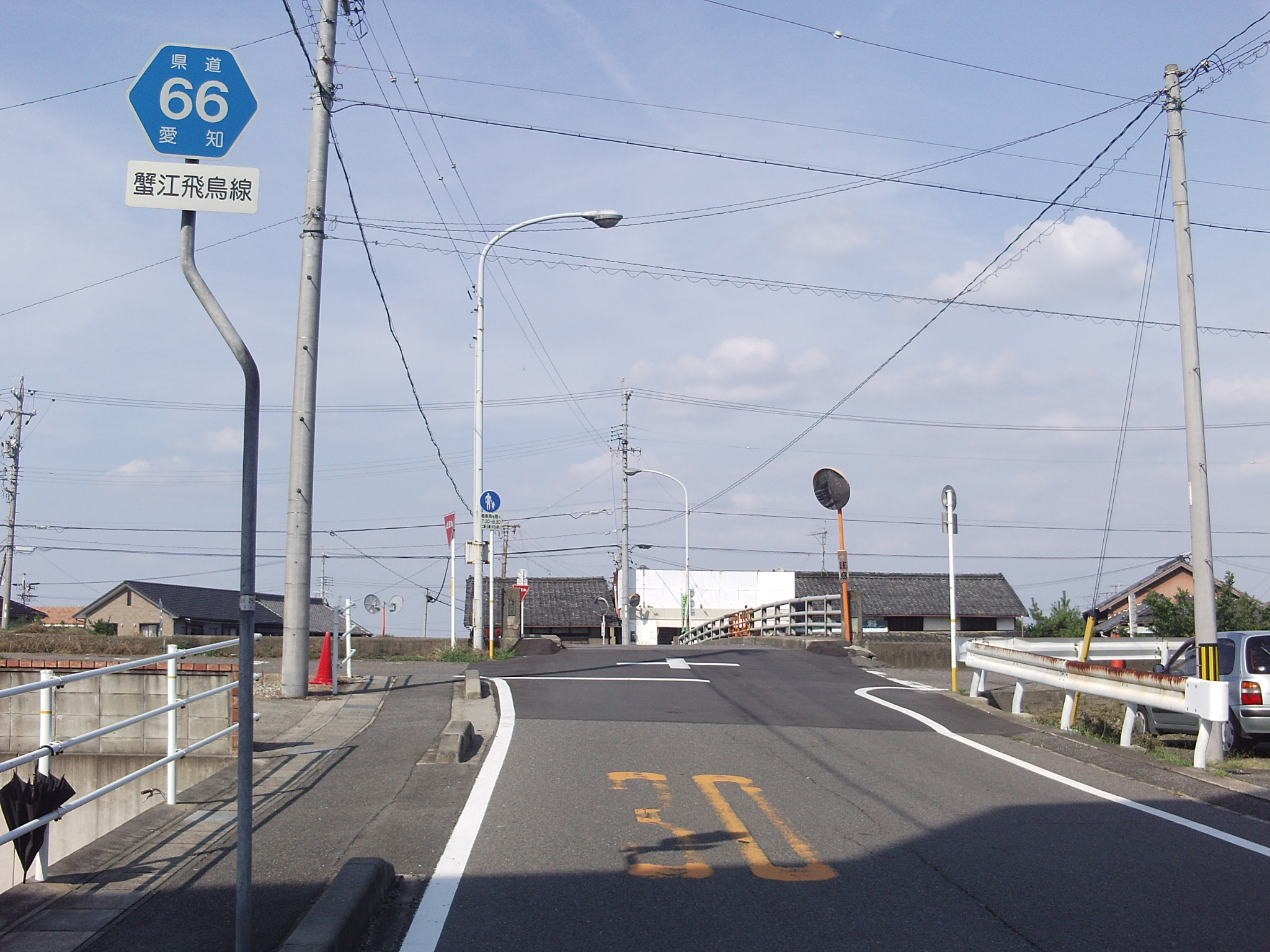 Aichi prefectural road No.66 in Kanieshinden, Kanie-cho, Ama-gun, Aichi.